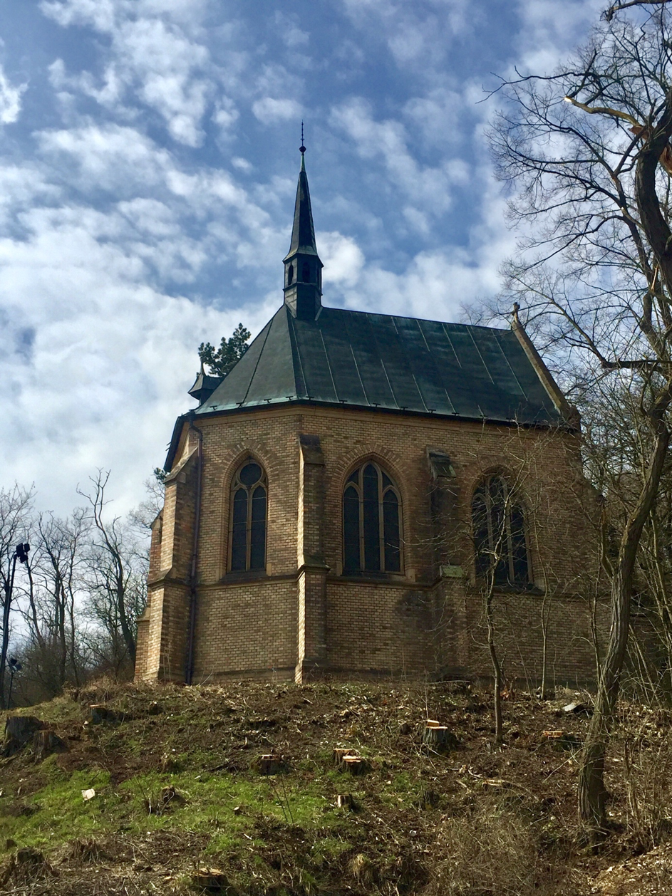 desc